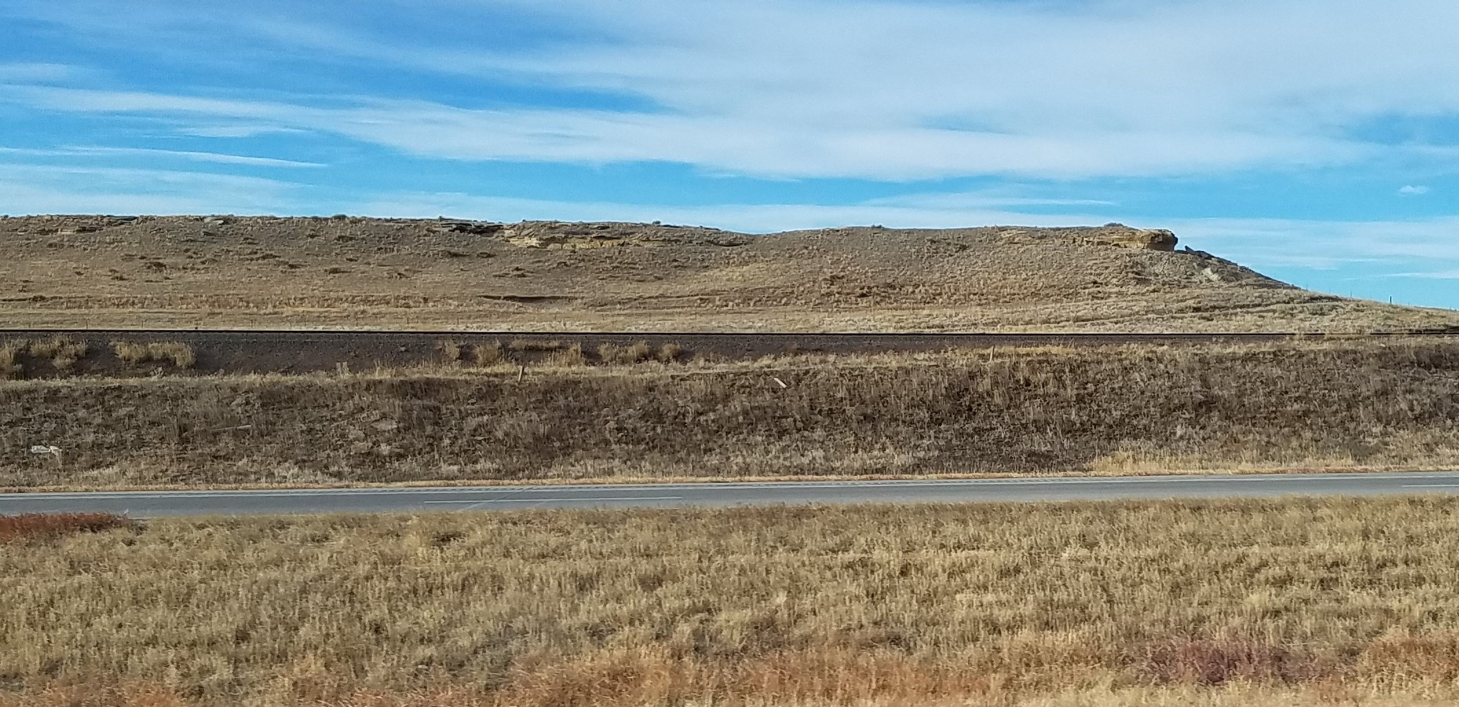 ​Fox Hills Formation, from the west-bound lane of Interstate 70 in Elbert County, Colorado. The course of the Kansas Pacific Railway, climbing just over 10 miles west of ​​Limon, found this gap in the hogback ridge capped by ​a resistant sandstone bed of the Fox Hills.